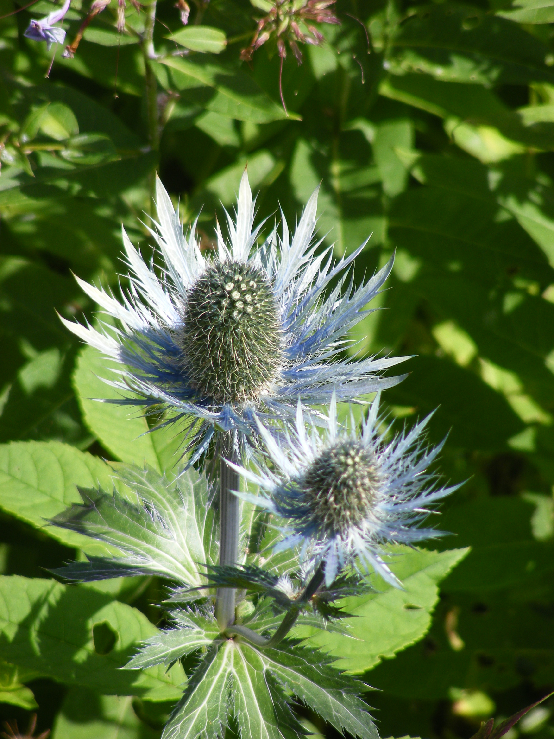 This photo shows Eryngium alpinum flowerhead